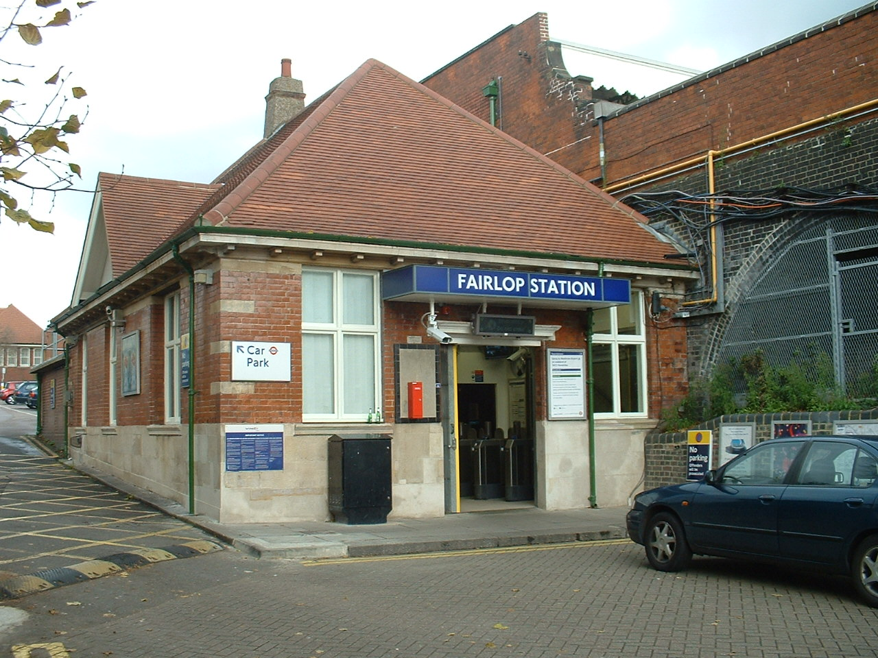 Fairlop tube station building, much as it was when first opened by the Great Eastern Railway in 1903. Sunil060902, 11th November 2007.